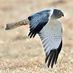 Male Northern Harrier (Circus hudsonius)